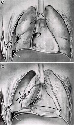 caption reads: FIGURE 2.—Continued. C. Packing of sucking wound (a), after which respiration becomes more normal. Hemothorax (e). D. Development of tension pneumothorax because air cannot escape from tear in lung (a), after wound is adequately packed. If it develops, it must be treated by closed (catheter) drainage of cavity. Hemothorax (e).